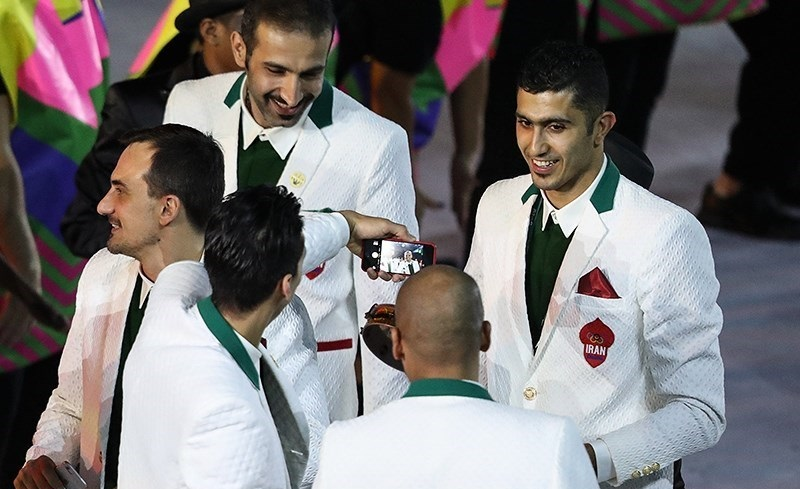 Iran national volleyball team in Rio, Brazil 2016. Olympic games.